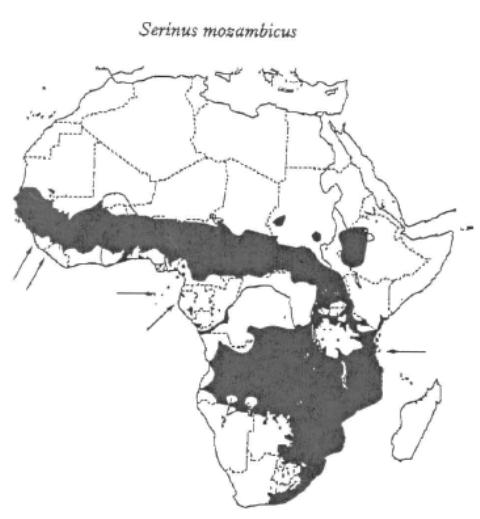 Serinus mozambicus